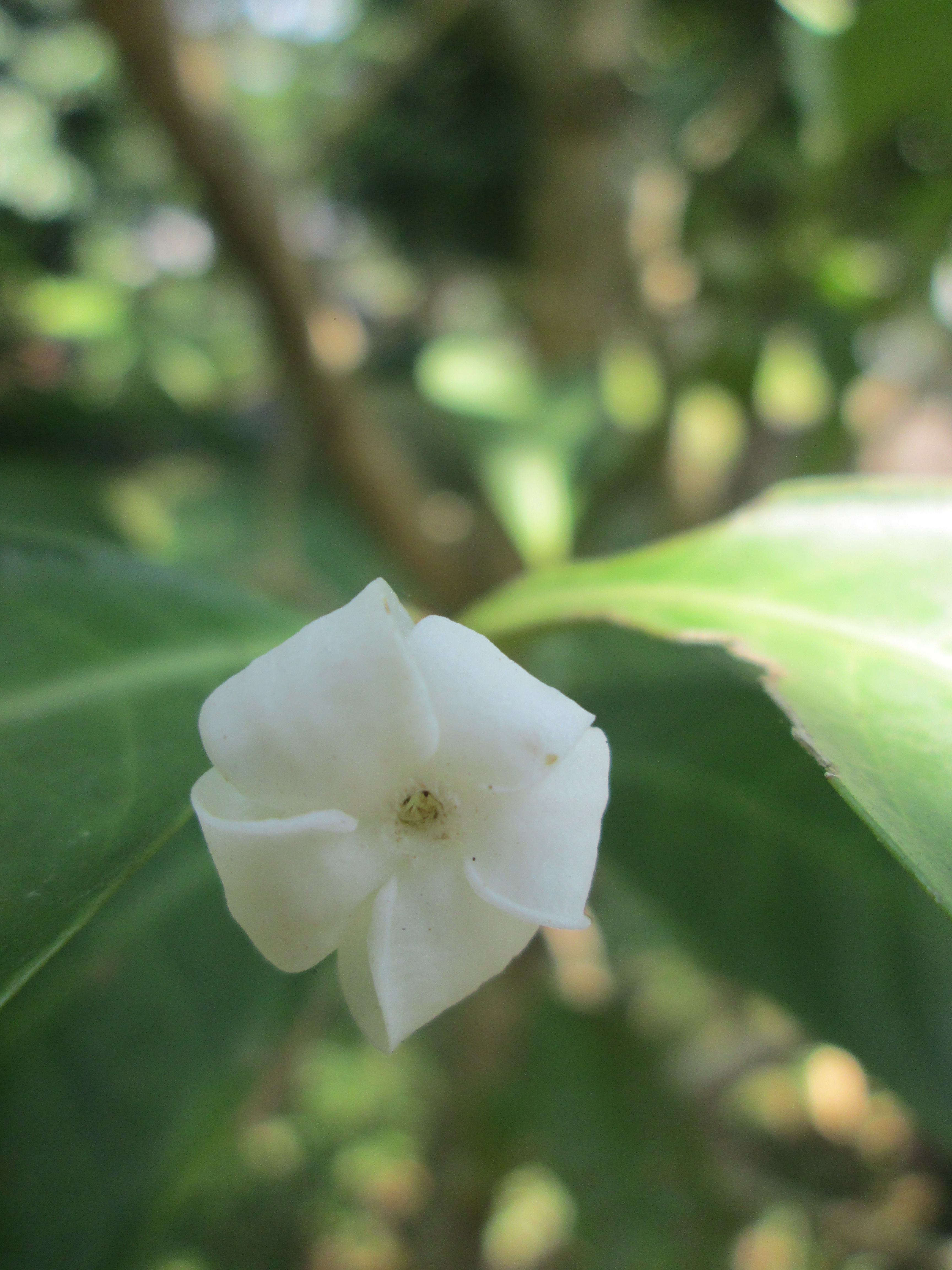 Kopsia arborea